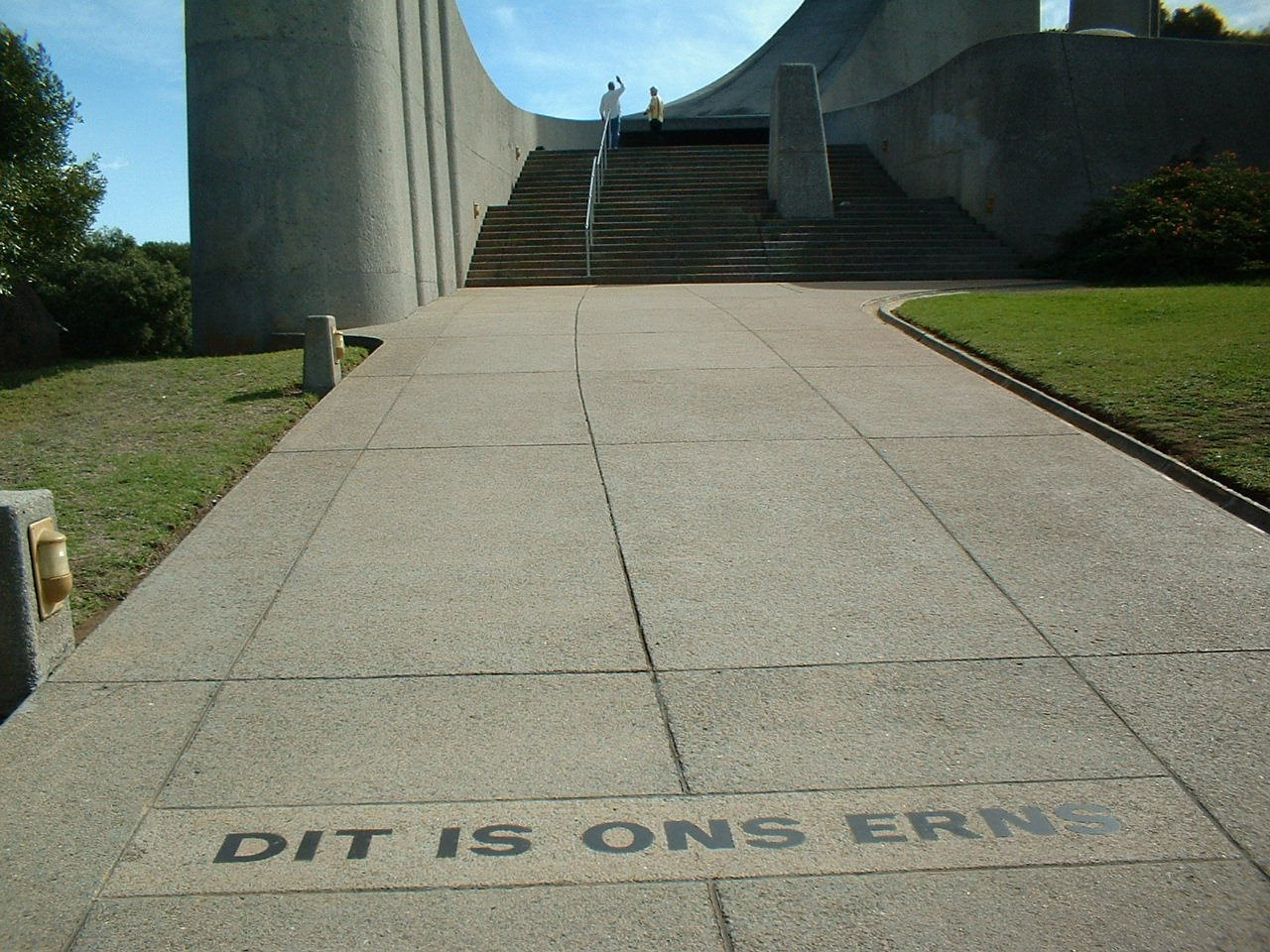 Slogan in front of the Afrikaans Language Monument, near Paarl, South Africa. It reads, roughly, "we are earnest [about this]", or "this is our earnestness").